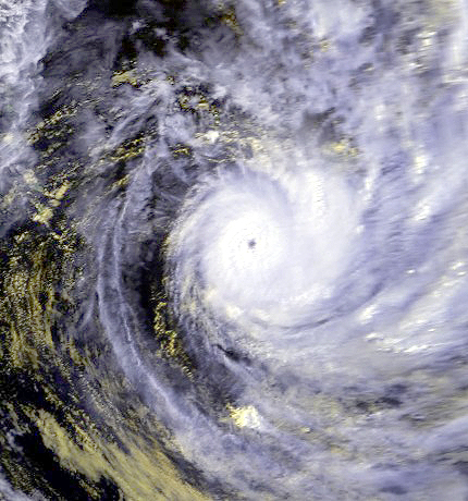 Cyclone Meli from TIROS-N. Inventory ID: NSS.GHRR.TN.D79087.S0249.E0442.B0233637